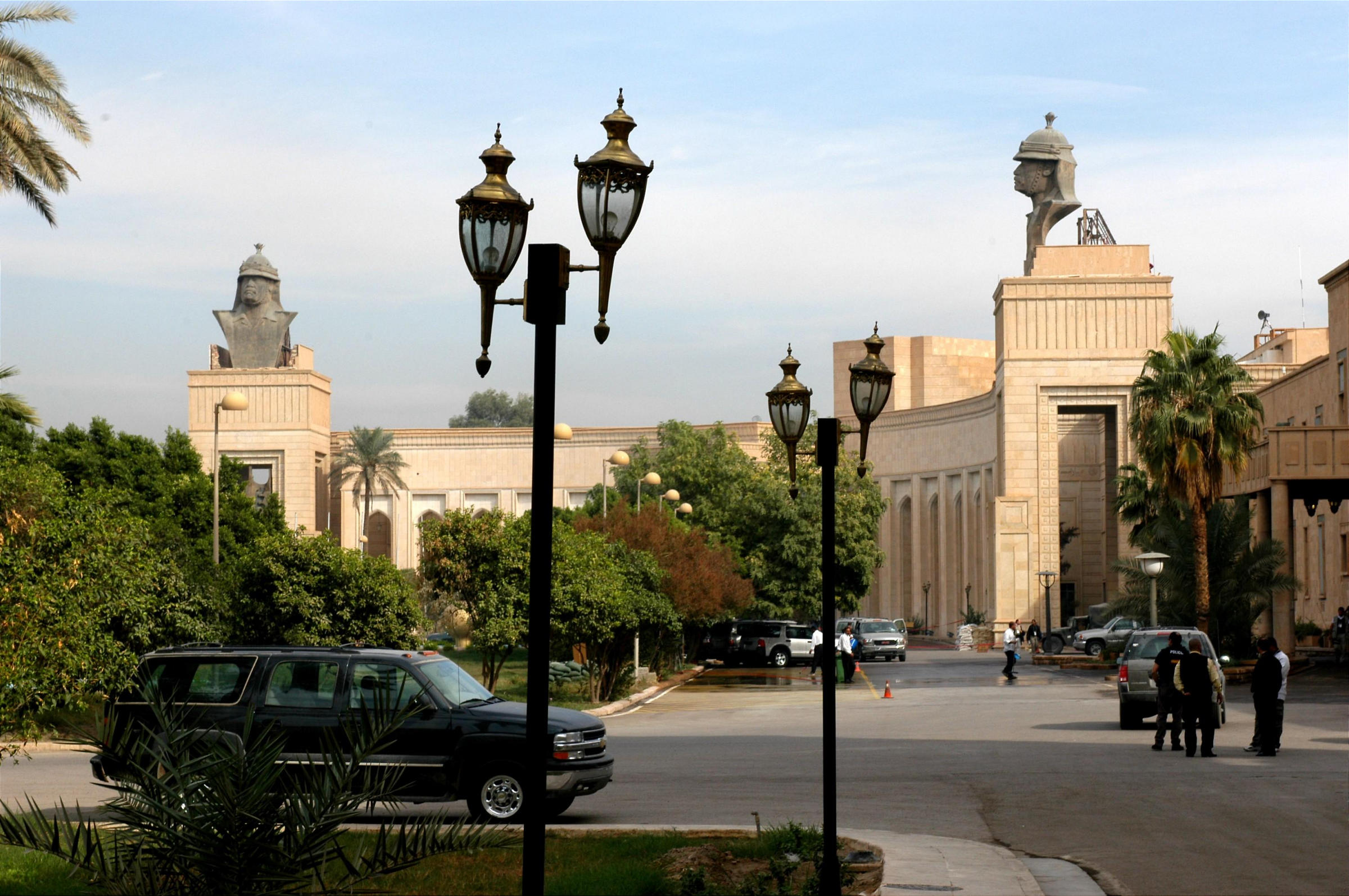 The Republican Palace (Arabic: al-Qaṣr al-Ǧumhūriy) in Baghdad, Iraq is the largest of the palaces commissioned by Saddam Hussein and was his preferred place to meet visiting heads of state. The United States spared the palace during its shock and awe raid during the 2003 invasion of Iraq, in the belief that it might hold valuable documents. The Green Zone developed around it. The palace itself served as the headquarters of the American occupation of Iraq and continues to serve as a primary base of operations for the American diplomatic mission in Iraq pending the construction of the new US Embassy in Baghdad.